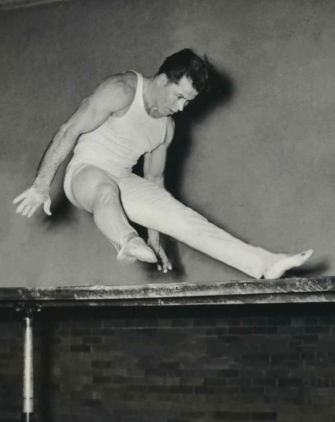 1949 Press Photo Joe Kotys, Gymnastics, Kent State - cvb65140